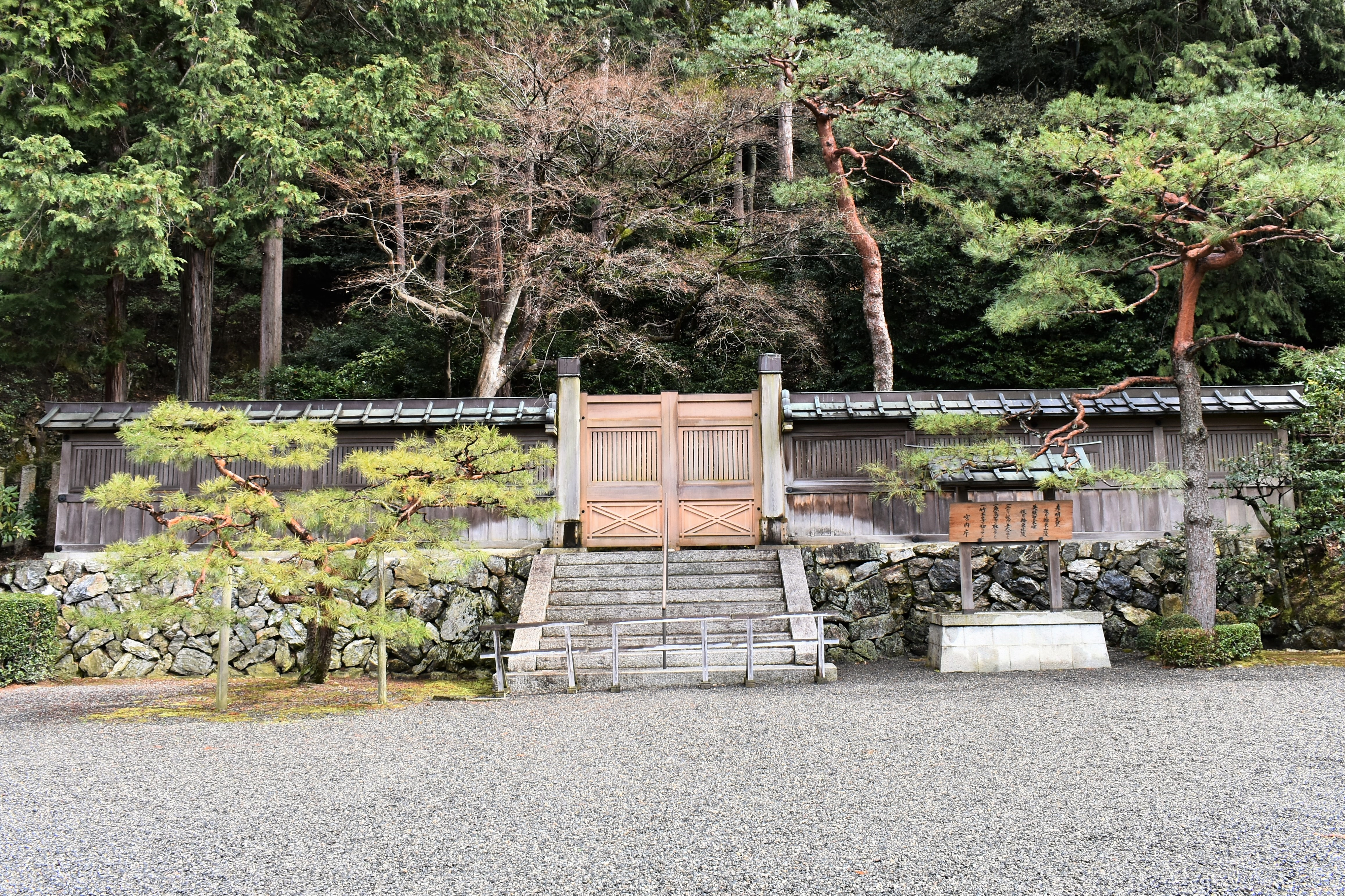 Located in Higashiyama Ward, Kyoto City, Kyoto Prefecture, "Nochi no Tsukinowa no Higashiyama no Misasagi" is the imperial mausoleum of the 121st Emperor Komei.